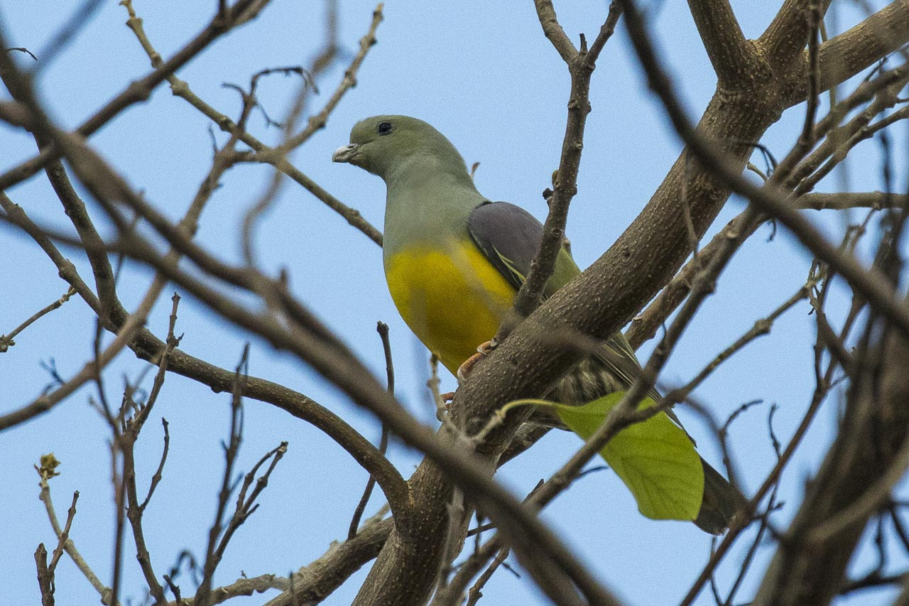 Bruce's Green Pigeon - Gambia 17CD5A0743